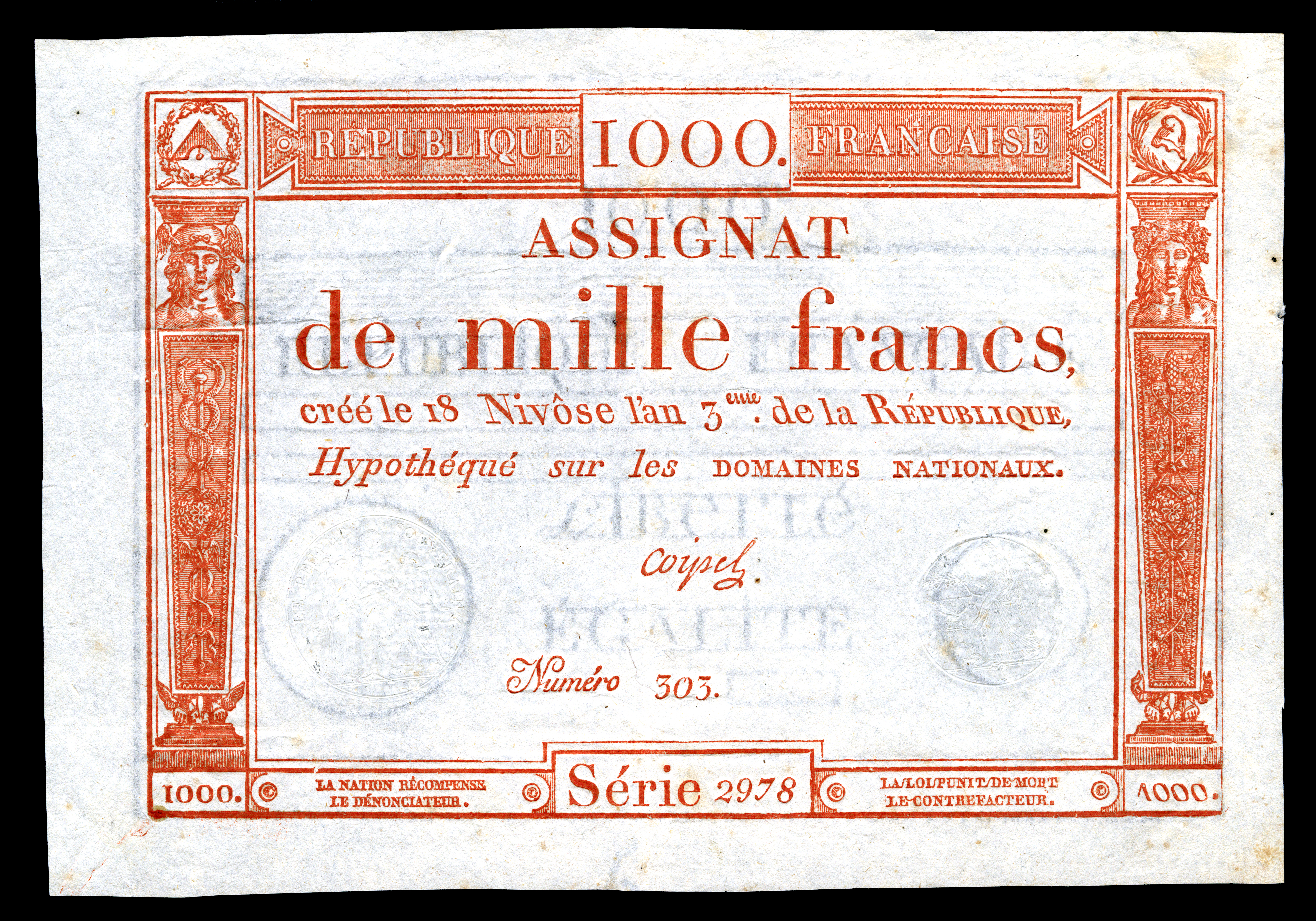 Early French banknote issue by République Française - Assignat for 1,000 francs, 1795 Franc Issue (Pick ref# A80.